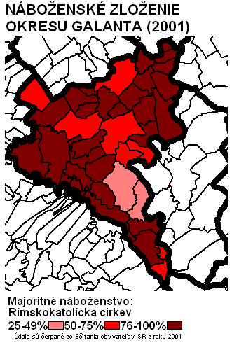 Religious structure in Galanta district in 2001.